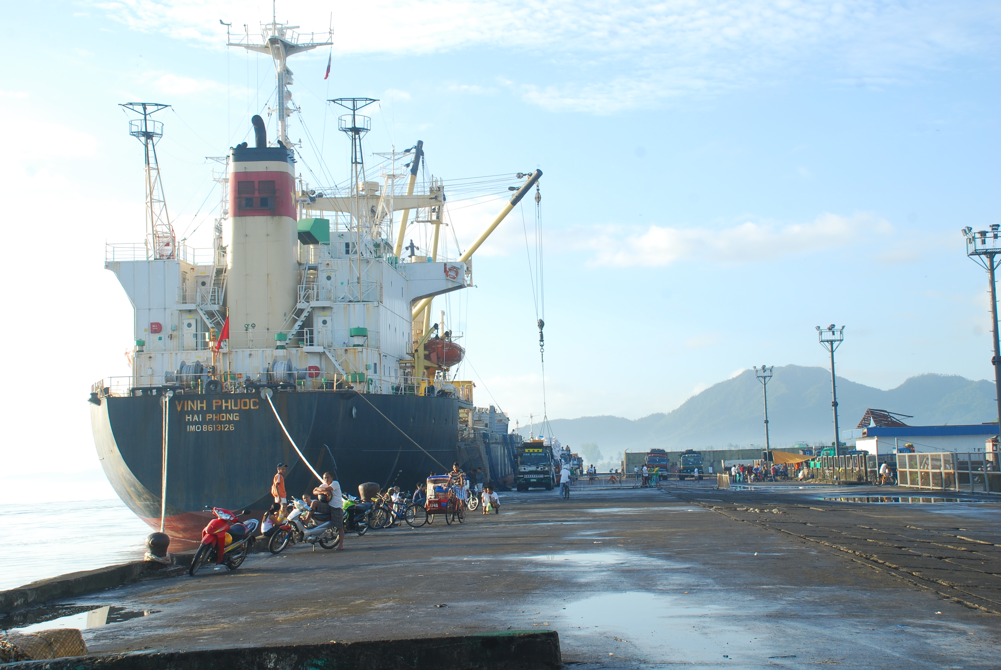 Port of Tabaco, Albay, Philippines